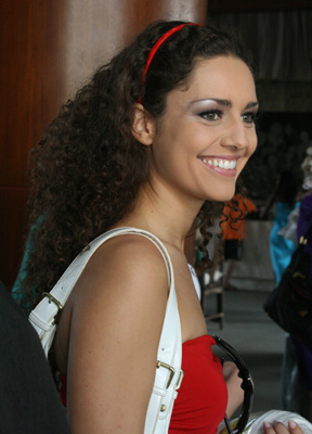 Miss Slovenia 2007 Tadeja Ternar in Miss World 07, Sanya, China